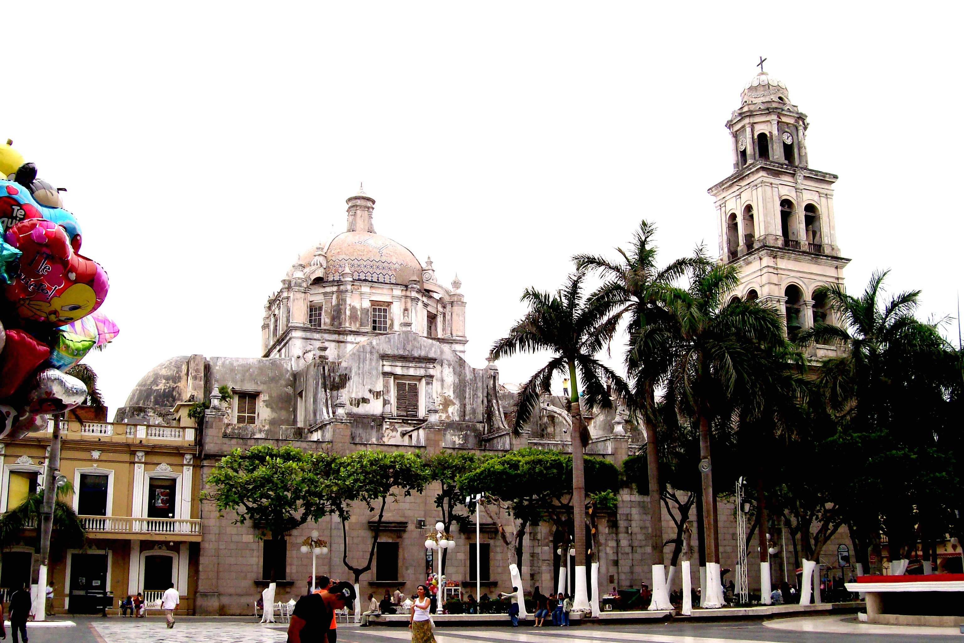 View of the Cathedral of Veracruz seen from the Zocalo where a little of the city's historic downtown life is shown.